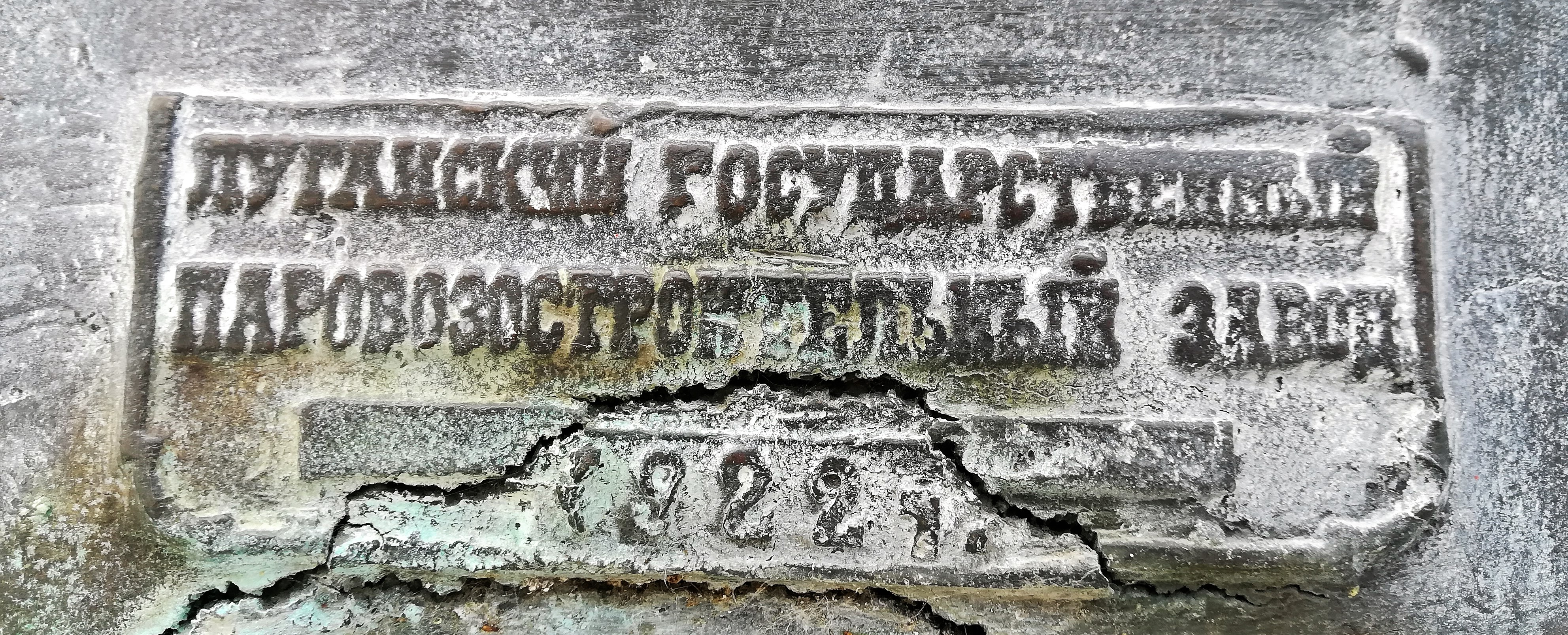 Detailed of Lenin's Bust- Cavriago (Province of Reggio Emilia)